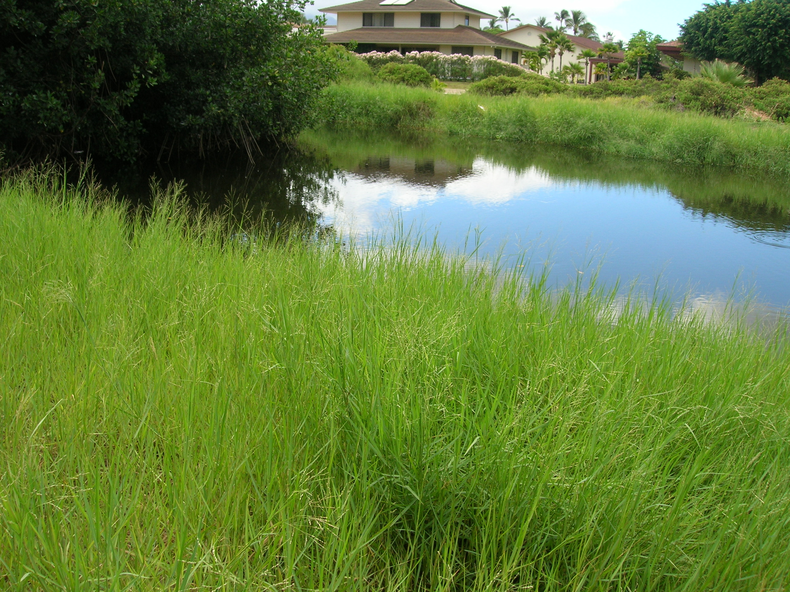 Panicum repens (habit). Location: Maui, Waiohuli Keokea